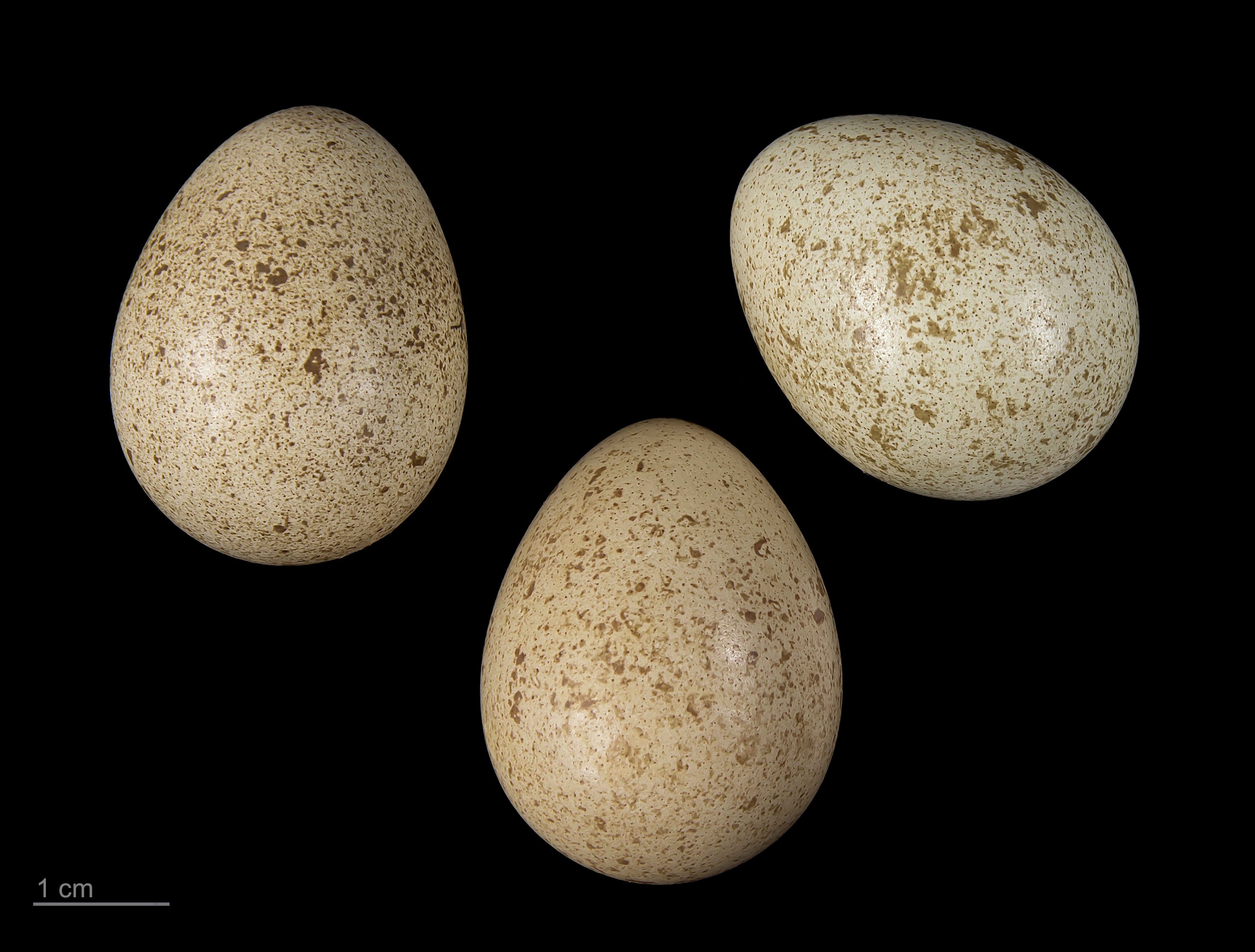 Egg of Alectoris barbara Collection of Jacques Perrin de Brichambaut.